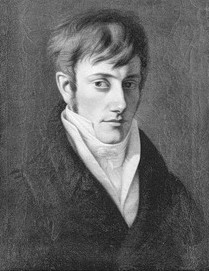 Wilhelm von Traitteur (1788-1859), aus Mannheim stammend, Architekt und Baumeister in Rußland